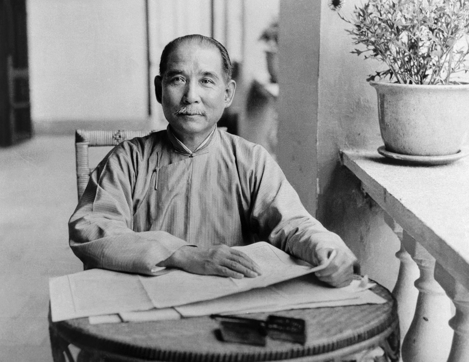 Dr. Sun Yat-sen in 1924 in Canton Bân-lâm-gú: Sun Tiong-san sian-sinn 1924-nî tī Kńg-tsiu.